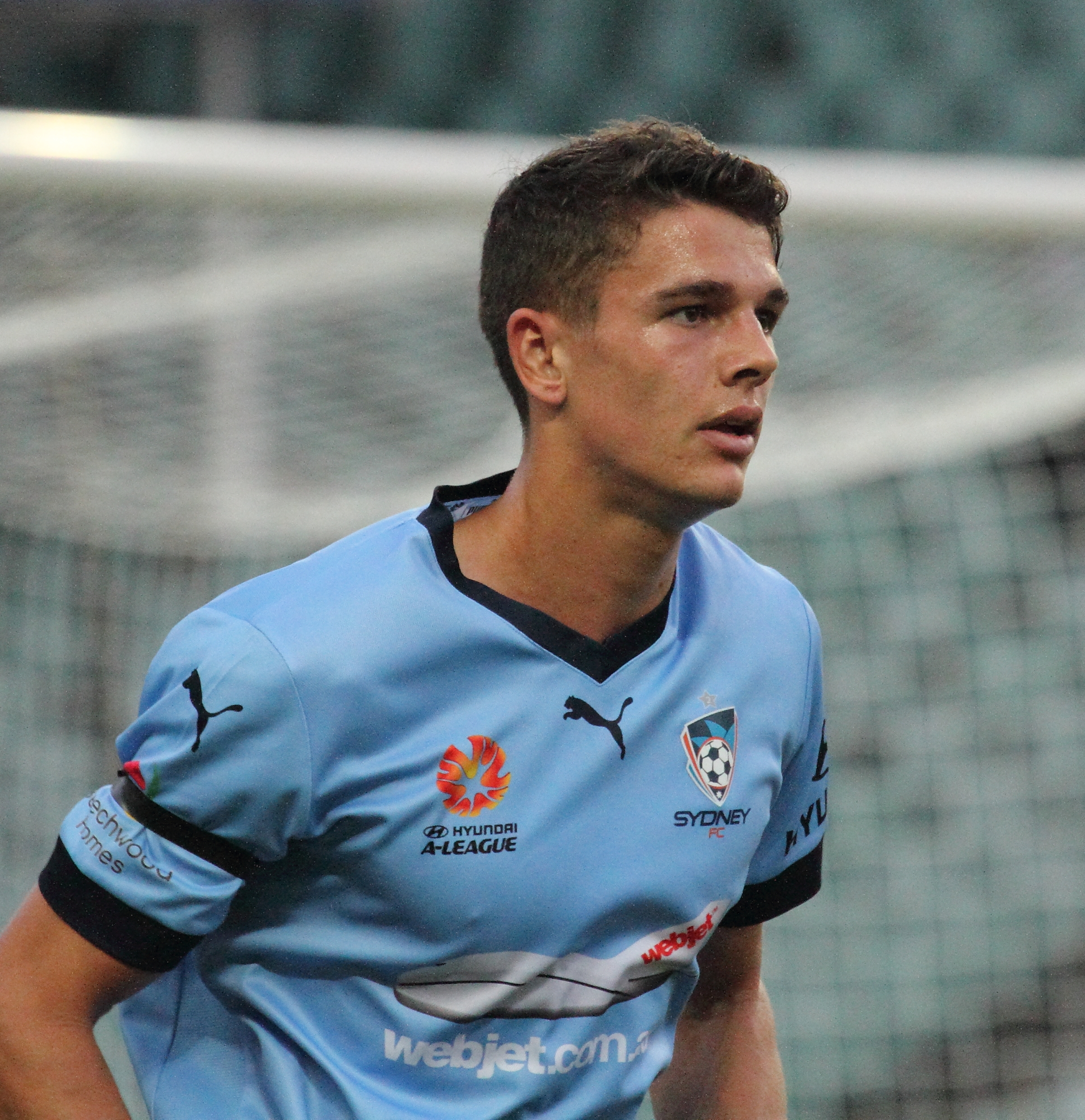 George Blackwood playing for Sydney FC against Perth Glory